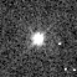 Hubble Space Telescope image of main belt asteroid 1512 Oulu, taken on 18 October 2012